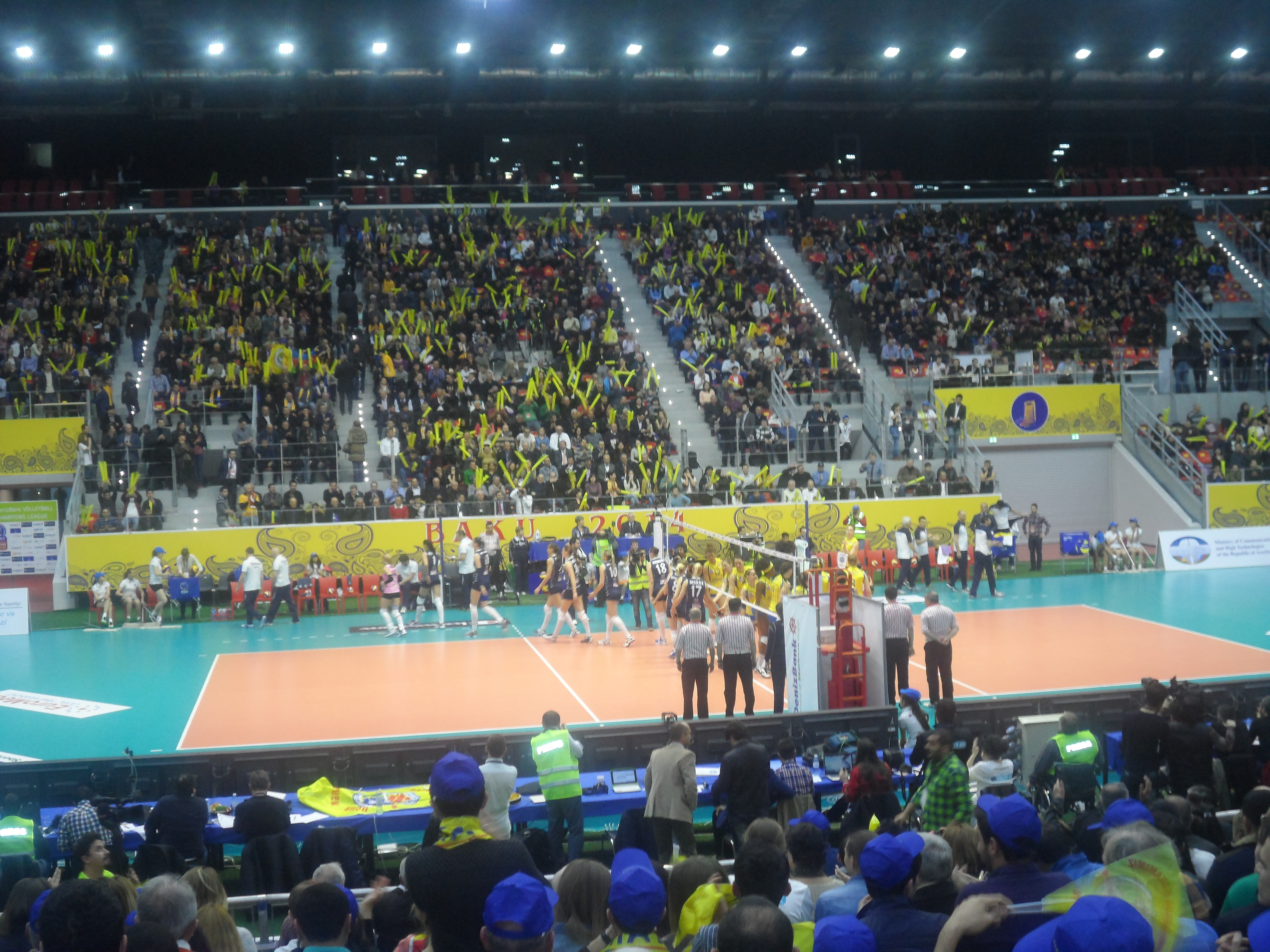 CEV Champions League 2013-2014 Final Four, Baku, Crystall Hall